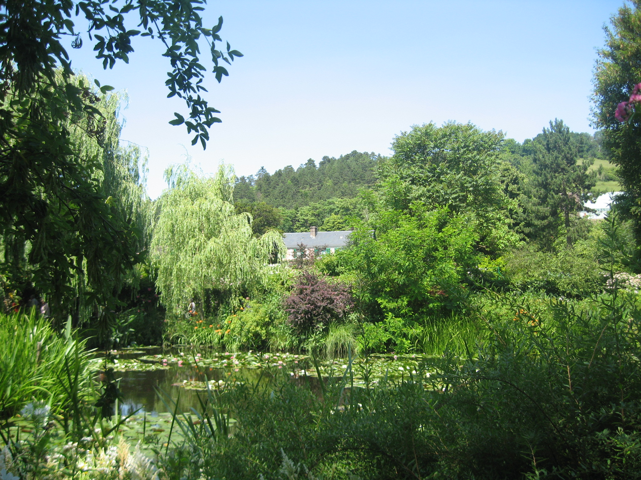 Giverny - Claude Monet´s Garden and House